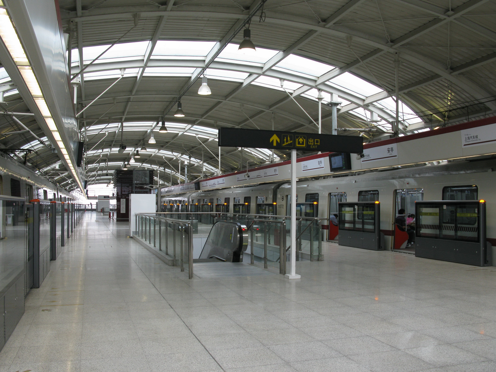 Line 11 Platform of Anting Station, Shanghai Metro